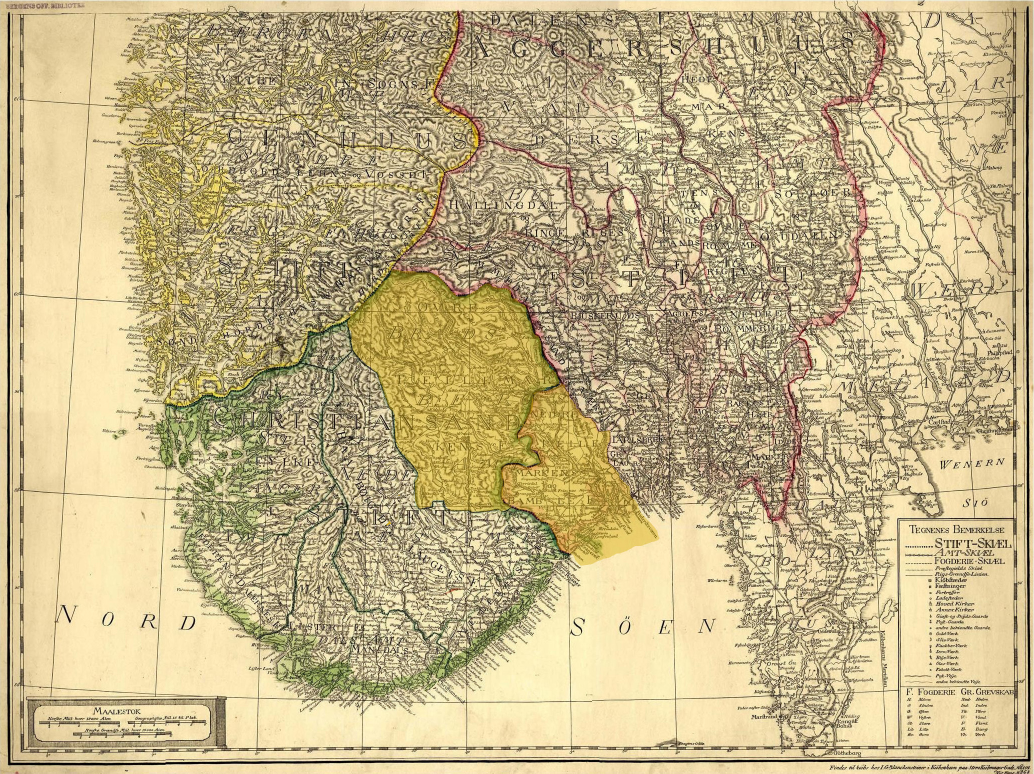 Bradsberg amt. Made from Pontoppidams map from 1785